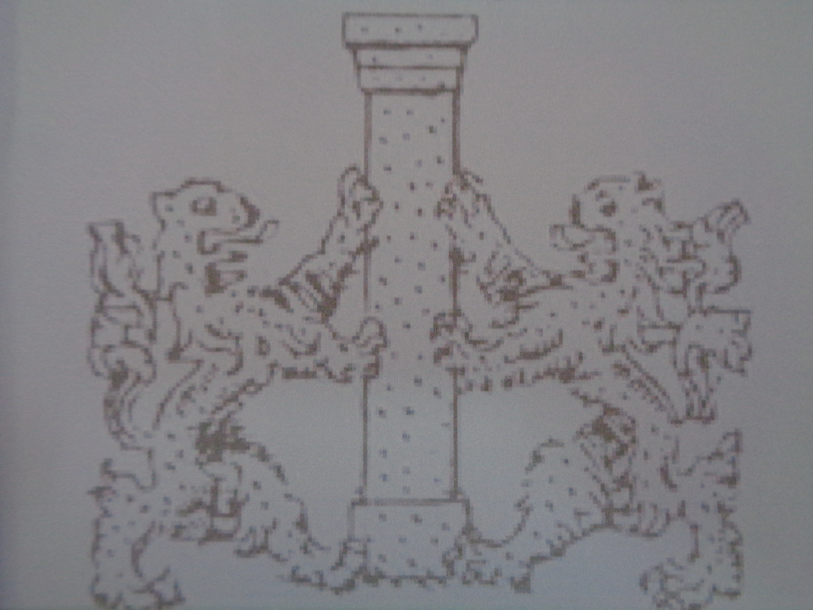 Orehovečki (Orehóczi) noble family stylized coat of arms (Croatia)